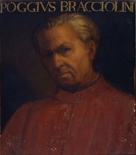 Portrait of Poggio Bracciolini, Galleria degli Uffizi in Florence. This is a copy by Cristofano Dell'Altissimo of a painting that was in the possession of Bishop Paolo Giovio of Como. The first mention of the original (now lost?) painting is from 1521. Poggio's Biographer Ernst Walser thinks it was genuine. Ernst Walser: Poggius Florentinus. 1914, p. 312 f. [1]